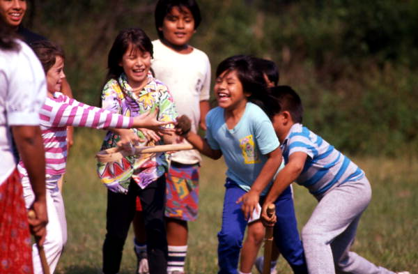 Local call number: fs89354 Personal Author: Michael, Nancy, Collector. Title: [Seminole children playing stick ball: Big Cypress Reservation, Florida] Publication info: 1989. Physical descrip: 1 slide; col. Series Title: (Folklife Collection) General Note: Stickball is a very old game among Native Americans-some of the earliest sketches by European explorers depict this game being played. The game has elements of a team sport, but also involves individual skill and endurance. The stickball game is one of the social highlights of the Green Corn Dance, but may be played for fun at other times during the year as well. Date/place captured: Photographed in January 1989. Repository: 500 S. Bronough St., Tallahassee, FL 32399-0250 USA. Contact: 850.245.6700. Persistent URL